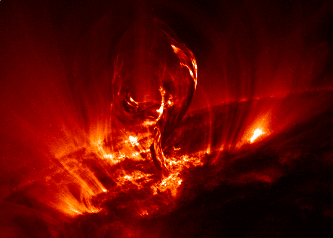 Filament erupting during a solar flare, seen at EUV wavelengths that show both emission and absorption (the filament has both). The plasma physics involved in this process remains ill-understood, but it certainly involves the Sun's magnetic field. Picture Credit: TRACE, NASA. Source